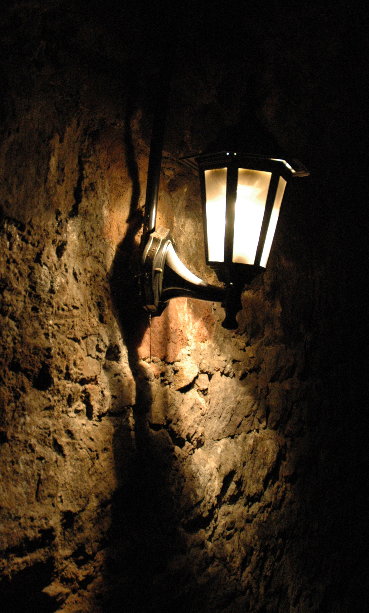 Edinburgh Vaults, Scotland